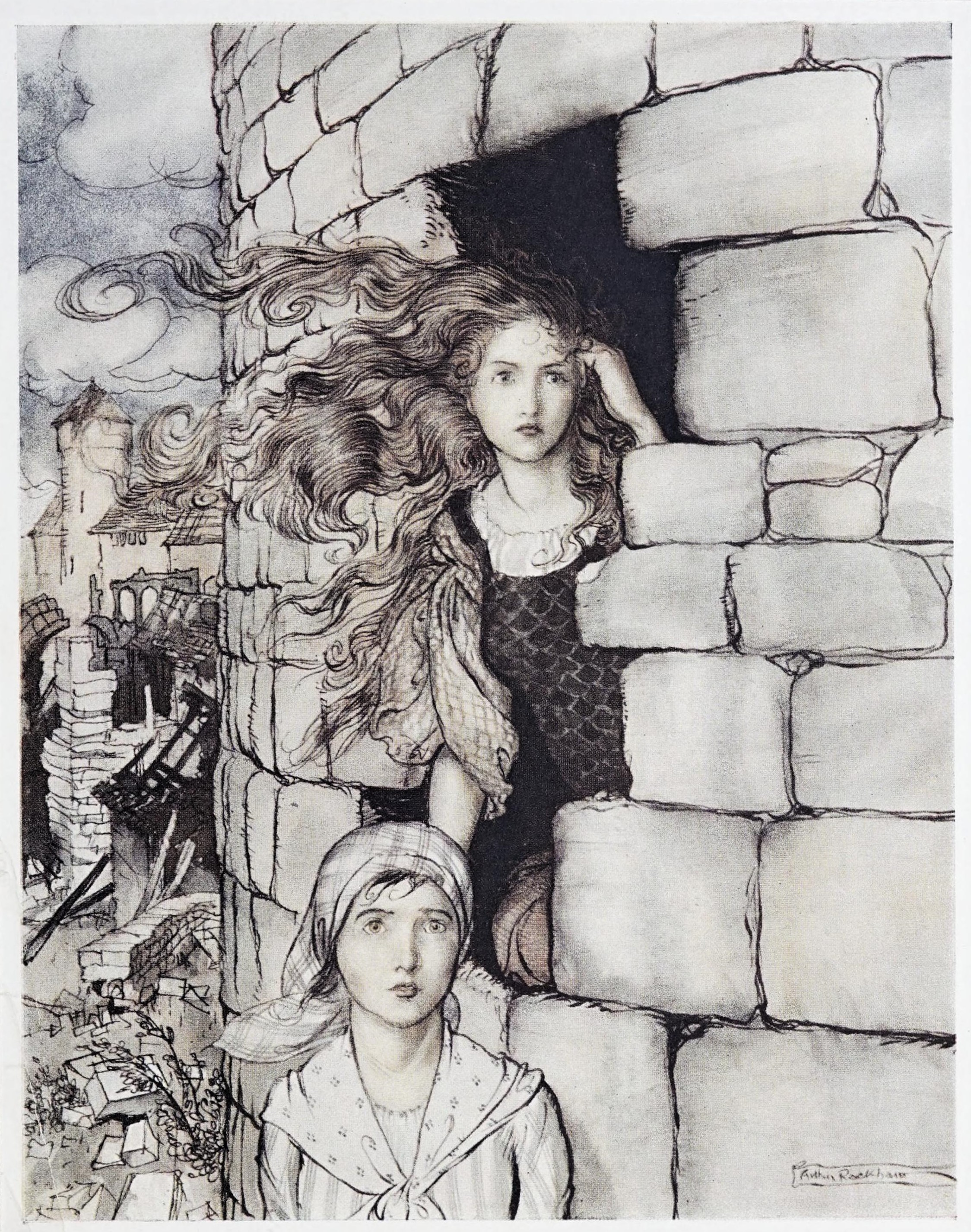 illustration to a fairy tale "Maid Maleen"